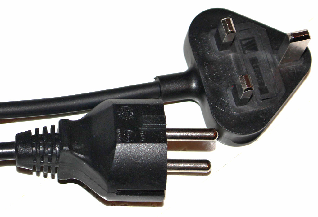 Comparison of CEE 7/7 (hybrid French/German) plug and BS 1363 plug, both manufactured by Longwell Company. The Longwell CEE 7/7 plug is type LP-34A, weighing 47 g without cord. Approved by VDE and others. The Longwell BS 1363 plug is type LP-61LD, weighing 44 g without cord. Approved by INTERTEK ASTA, Licence No. 1122.